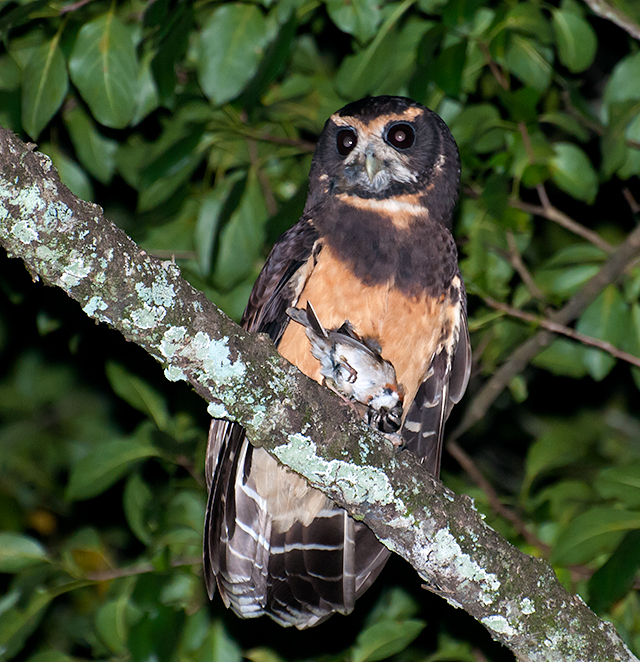 A Tawny-browed Owl in Piraju, São Paulo, Brazil.